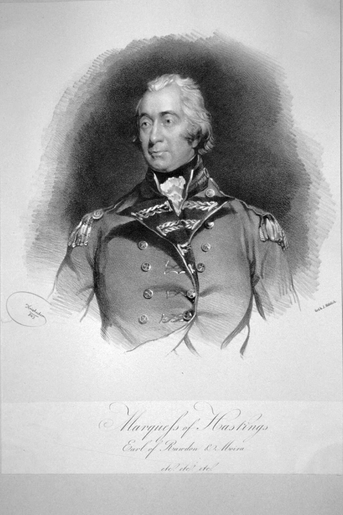 Portrait of George August Francis Rawdon-Hastings, 2. Marques of Hastings, Earl of Rawdon und Moira (1808-1844)